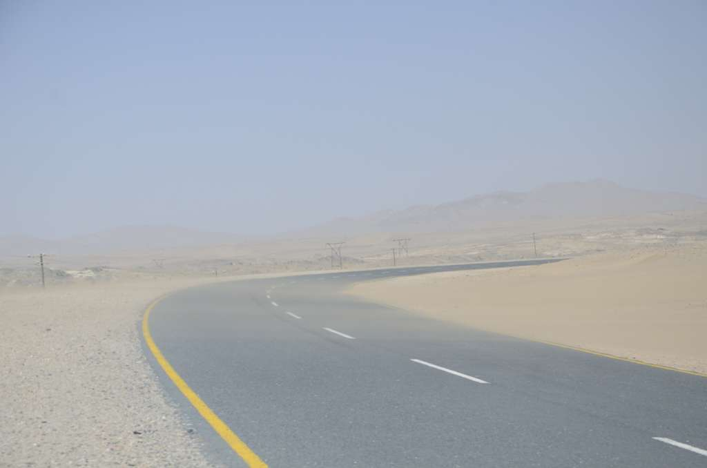 There is always wind and flying sand near Luderitz (for 50-60 km eastwards).